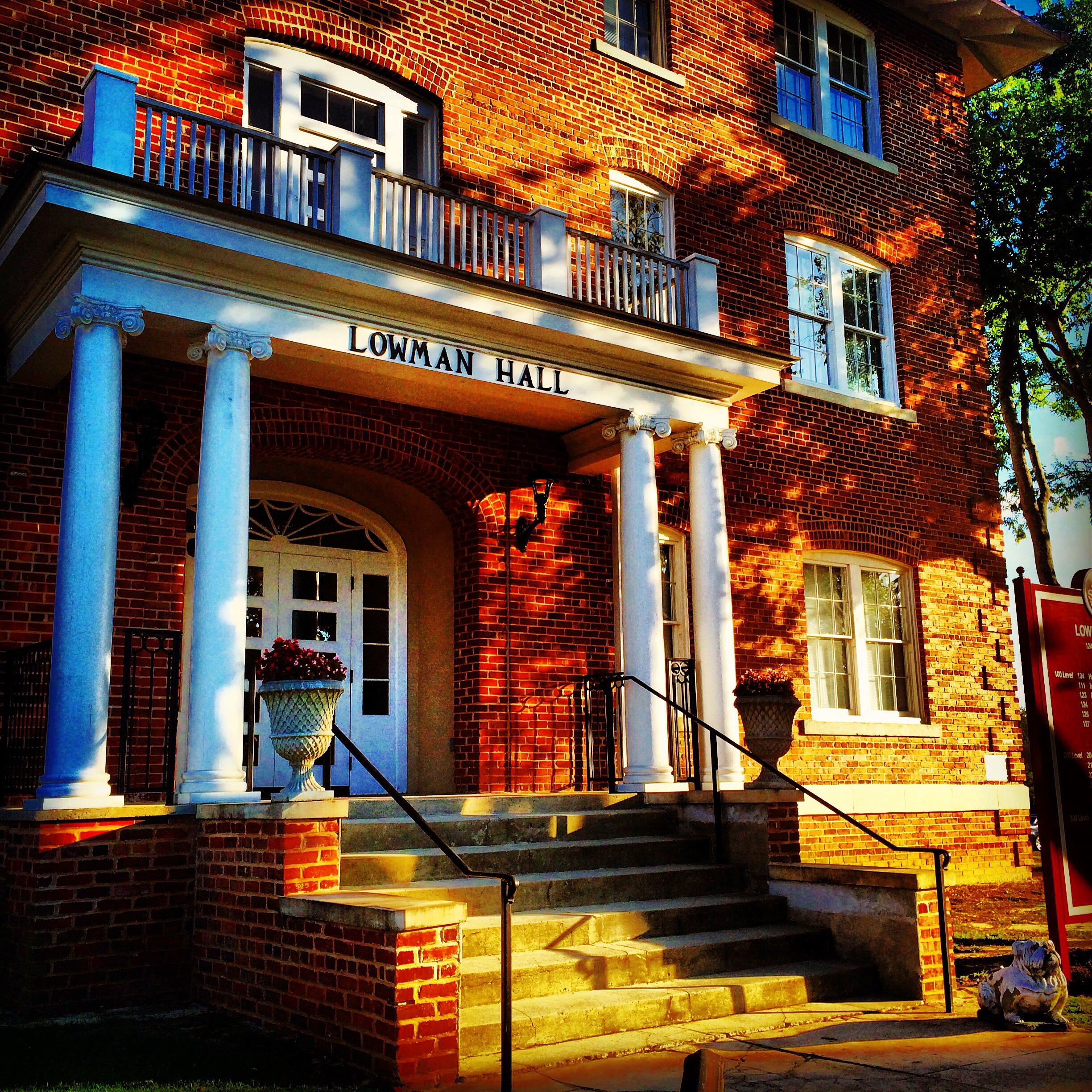 Lowman Hall - Original male dormitory - is the oldest building on the campus of SC State University